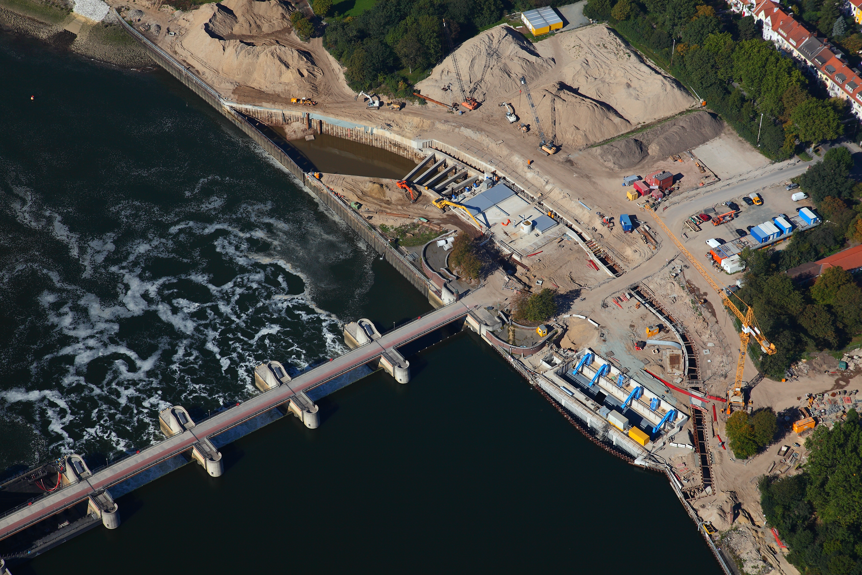 Aerial photograph of the hydroelectric power plant on the river Weser in Bremen, Germany, during construction.